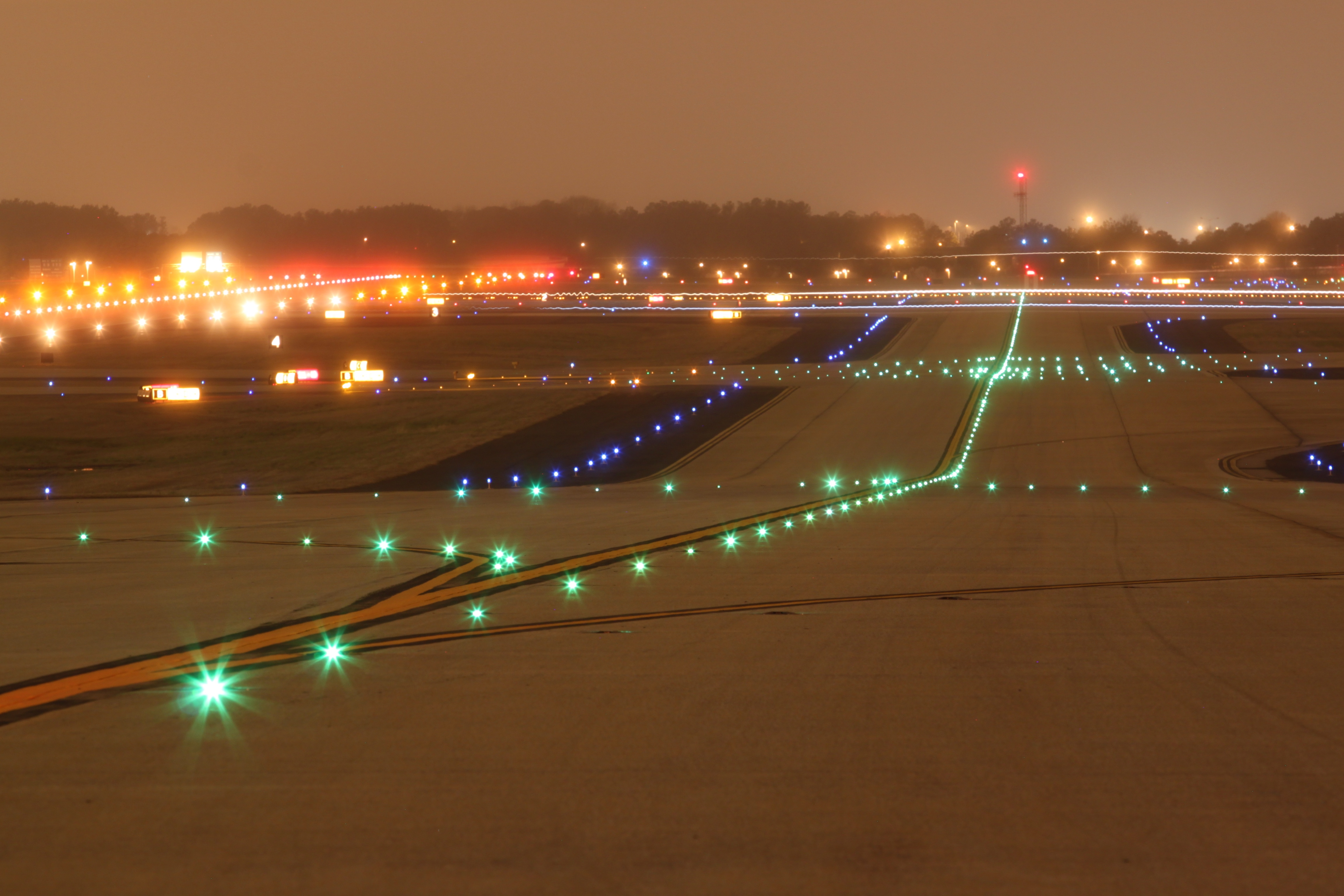 Hartsfield-Jackson Atlanta International Airport United States of America United States of America. Looking west on a misty night.